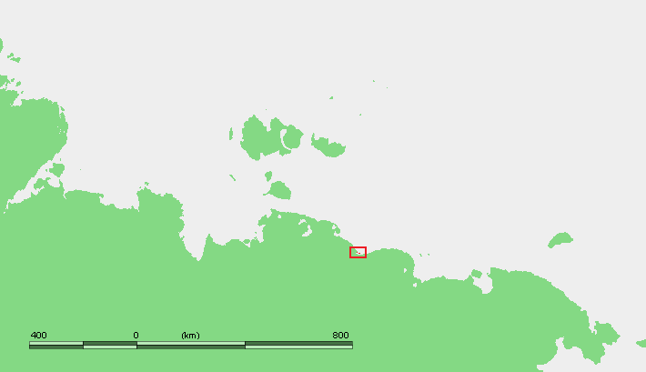 location map